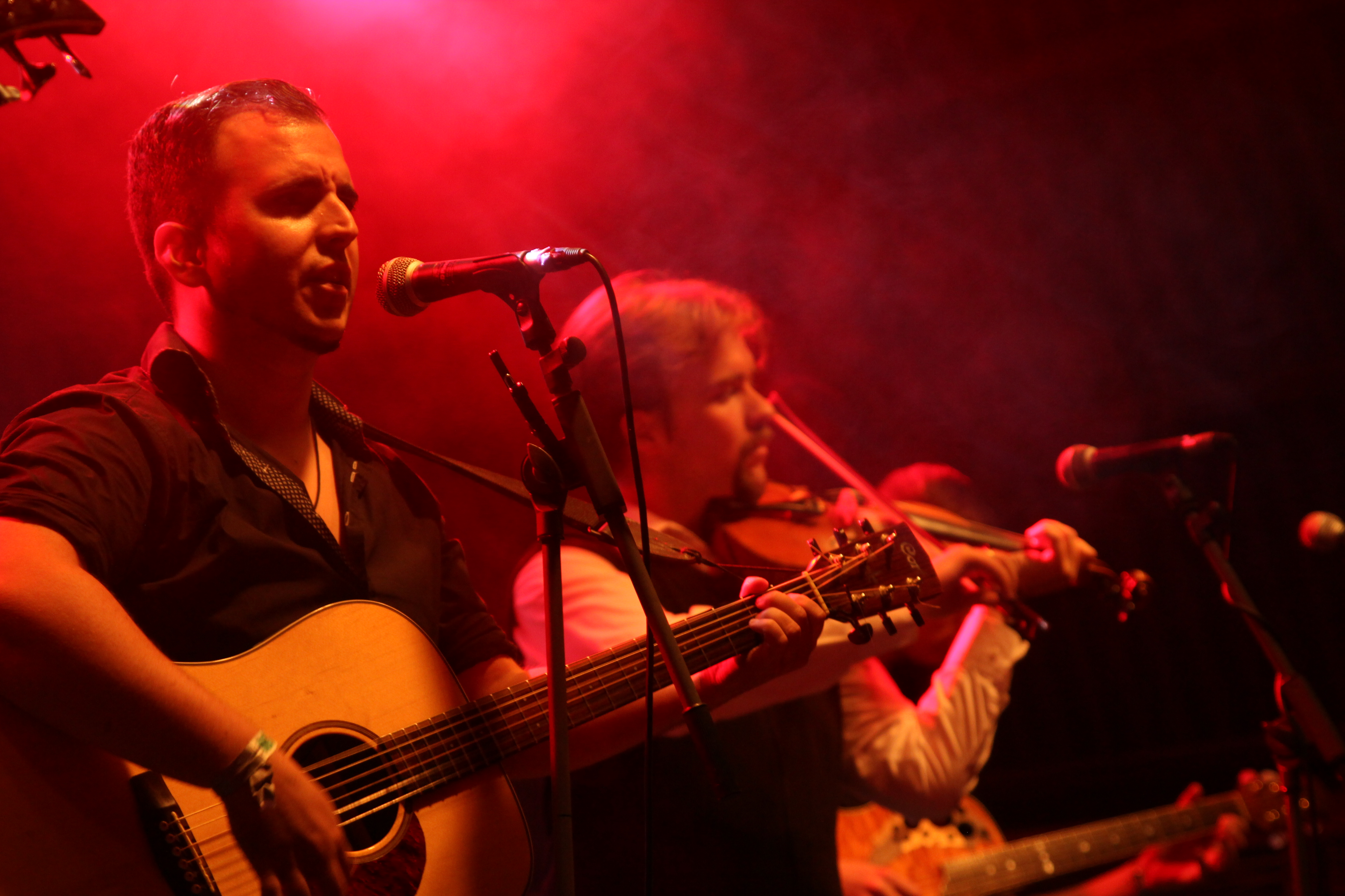 The Austrian neofolk band Jännerwein at the Nocturnal Culture Night 9 2014 in Deutzen/Germany